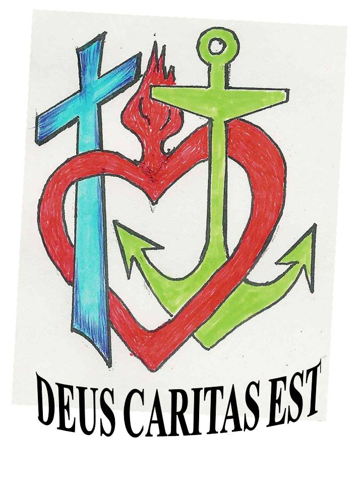 Cross, anchor, and heart for Faith, Hope and Charity(=Love).